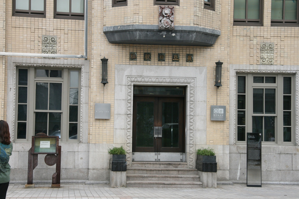 Ilmin Museum of Art entrance, which is the former Dong-a Ilbo newspaper building, at Gwanghwamun Square on Sejong-ro, Jongno-gu, Seoul, South Korea in 2012